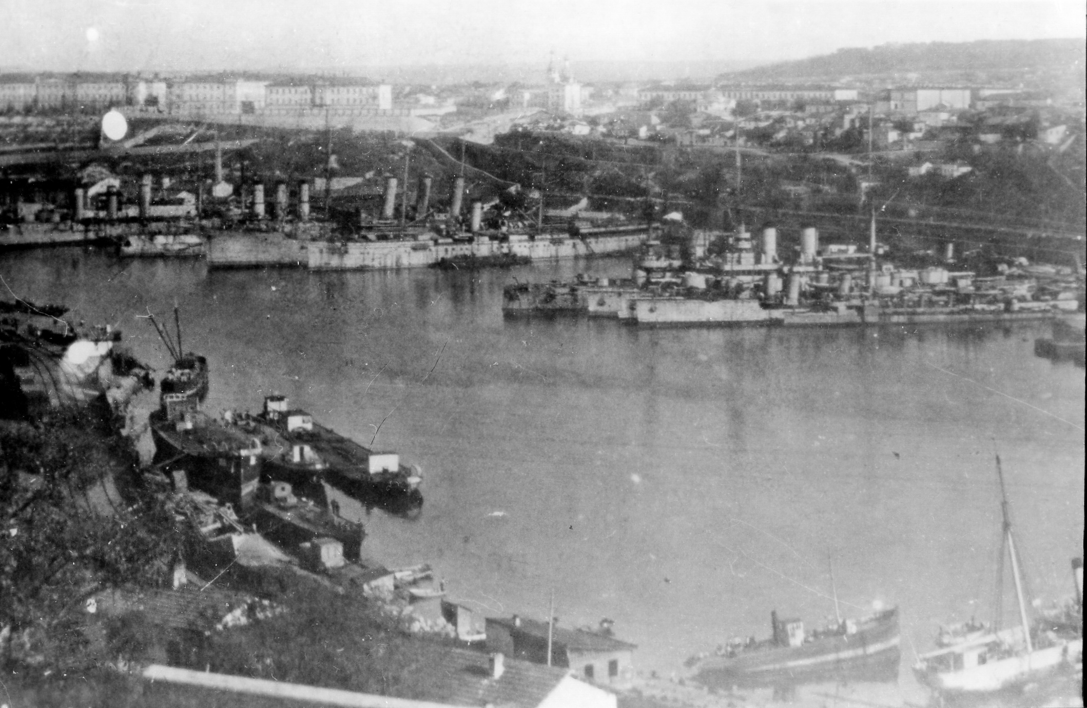 Southern bay of Sevastopol, 1918. From the right; a «Zh» / «Z» class destroyer; a «Schastlivyy» class destroyer; destroyer «Gromkiy»; battleship «Rostislav»; battleship «Sinop»; submarine tender «Dnestr»; mine sweeper No.73 «Kherson»; battleship «Evstafiy»; cruiser «Pamyat' Merkuriya».